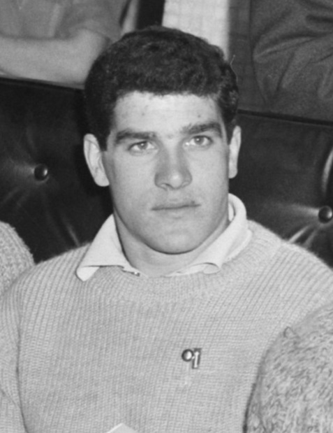 Raúl Machado in 1963.